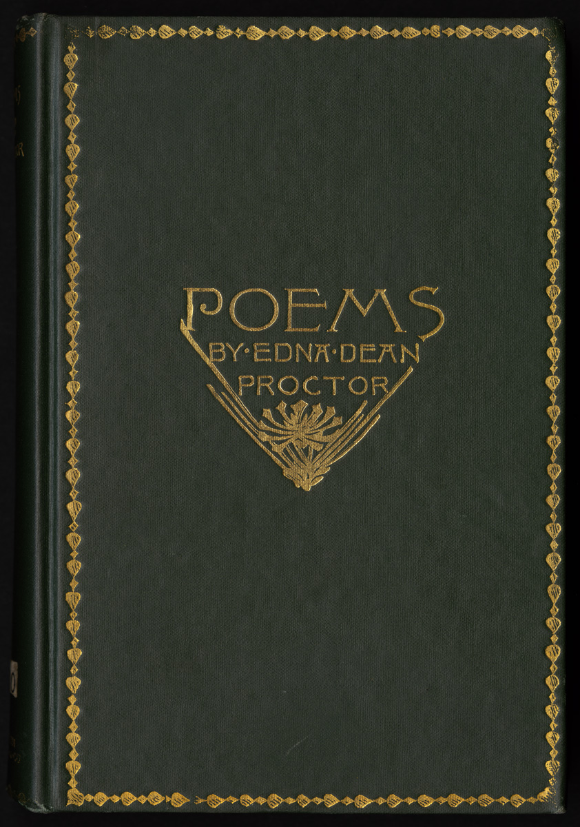 File name: 06_04_000115Title: PROCTOR(1890) PoemsDate issued: 1890Genre: Book coversNotes: Proctor, Edna Dean, 1829-1923 (Author)Collection: Sarah Wyman Whitman BindingsLocation: Boston Public Library, Special CollectionsRights: No known copyright restrictions.